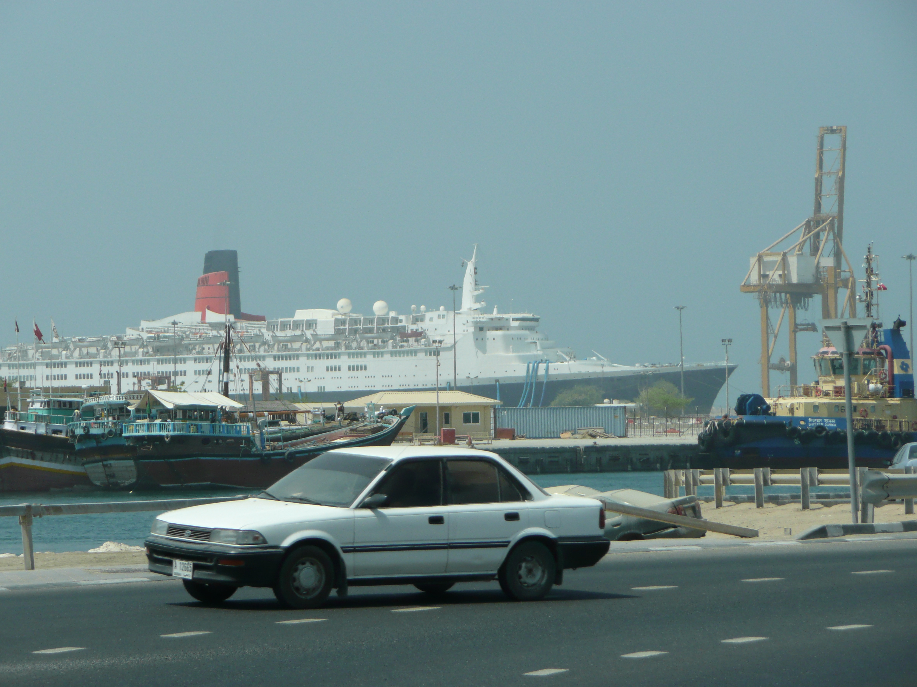 RMS Queen Elizabeth 2 docked at Port Rashid in Dubai, United Arab Emirates.